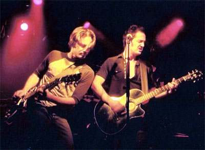 Photo of Jeff Russo and Emerson Hart from the band Tonic.